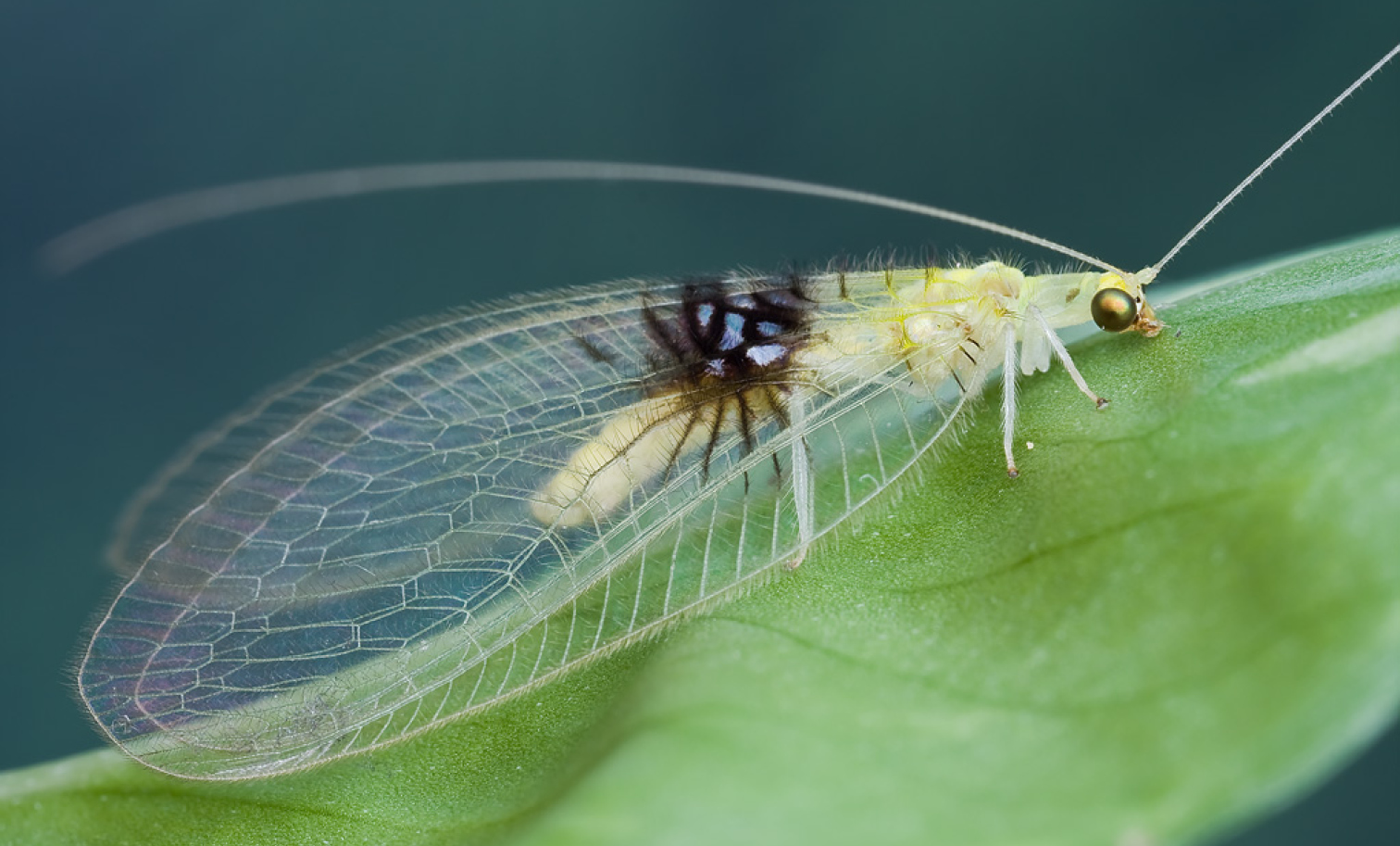 Semachrysa jade female habitus (Morphbank: 791597). Forewing length: 15.0 mm. Photographer: Guek Hock Ping.